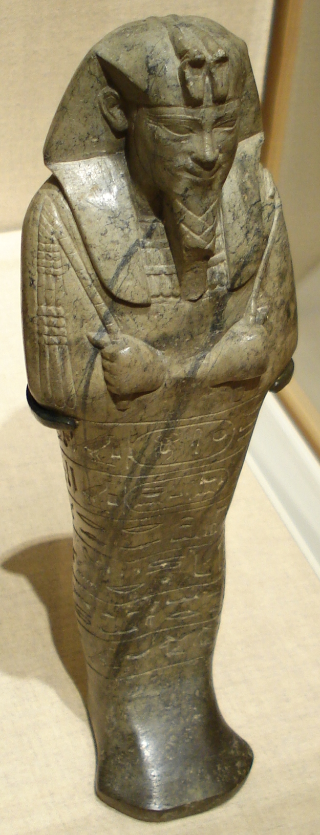 Funerary figurine of Kushite king Senkamanisken. Steatite. Napatan kingdom, reign of Senkamanisken, c. 643-623 BC. From the Nuri necropolis in Napata.